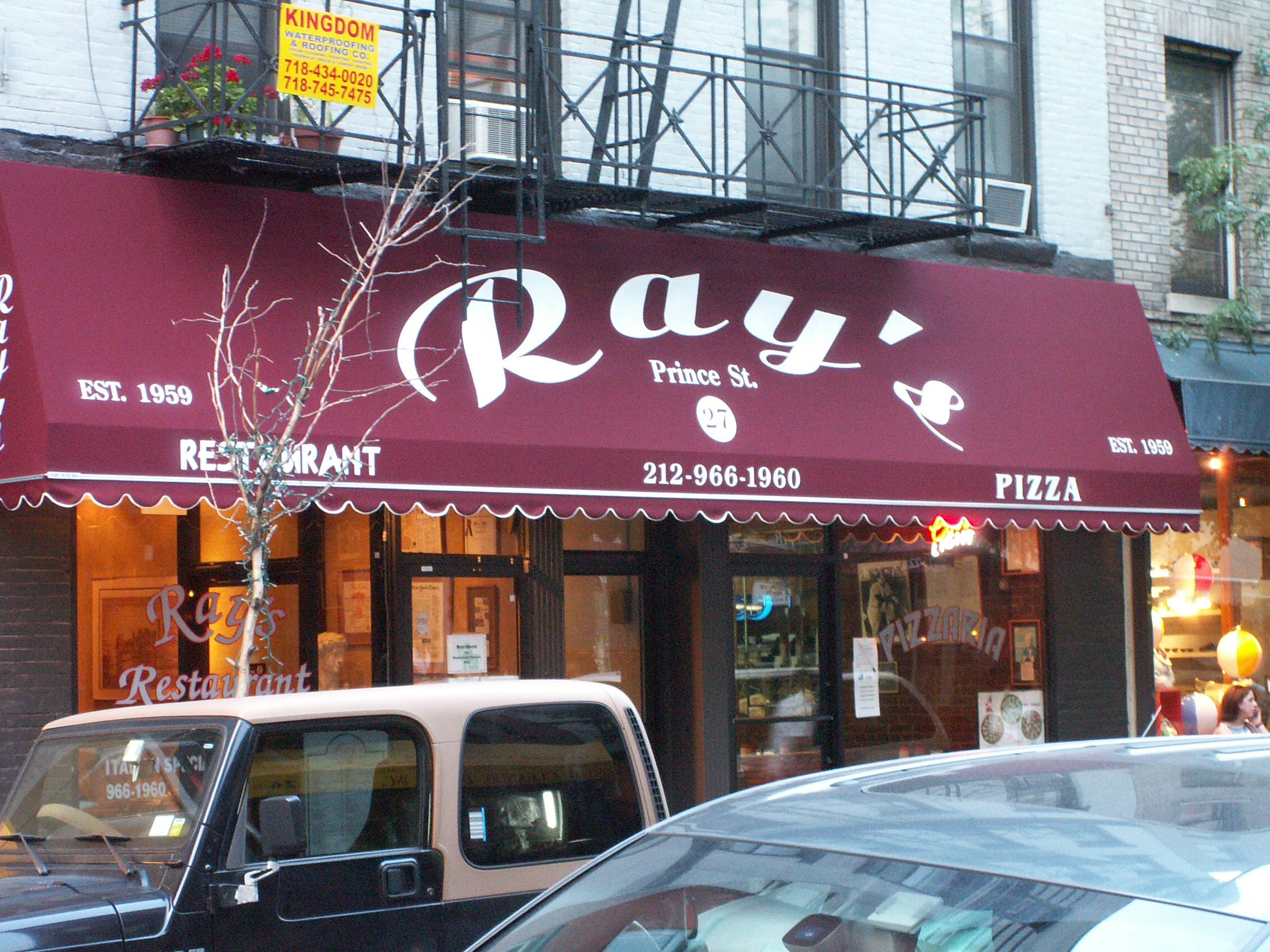 This is the first Ray's Pizza in New York City. It is located on Prince Street on the northern edge of Little Italy and was established in 1959.